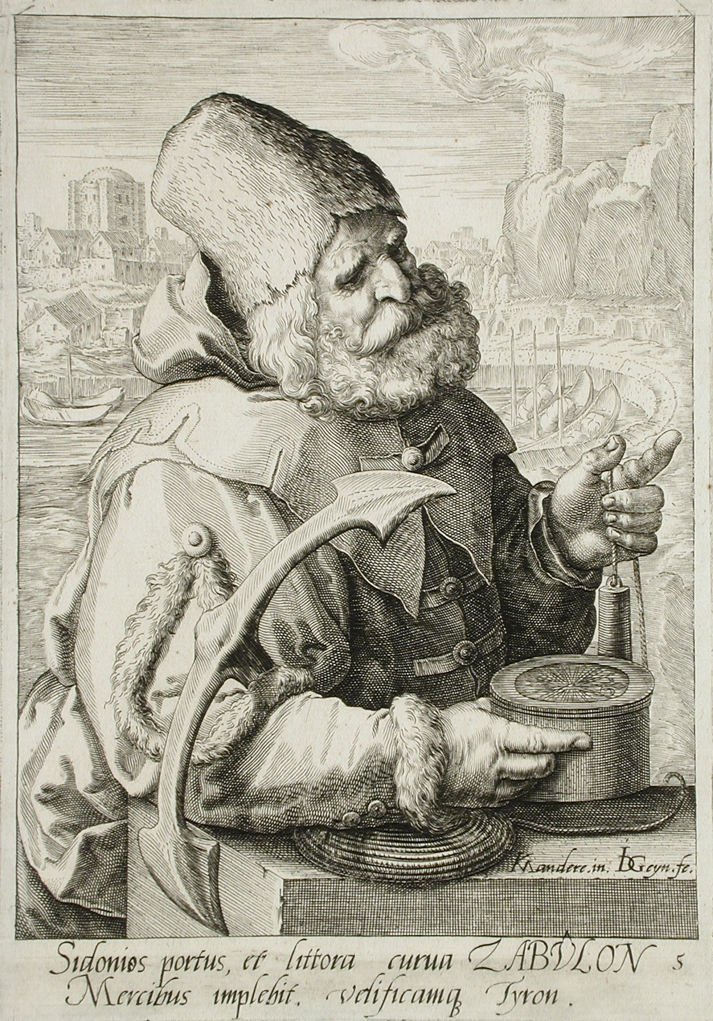 Holland, circa 1590 Series: The Twelve Sons of Jacob, pl. 5 Edition: First edition Prints; engravings Engraving Mary Stansbury Ruiz Bequest (M.88.91.296e) Prints and Drawings